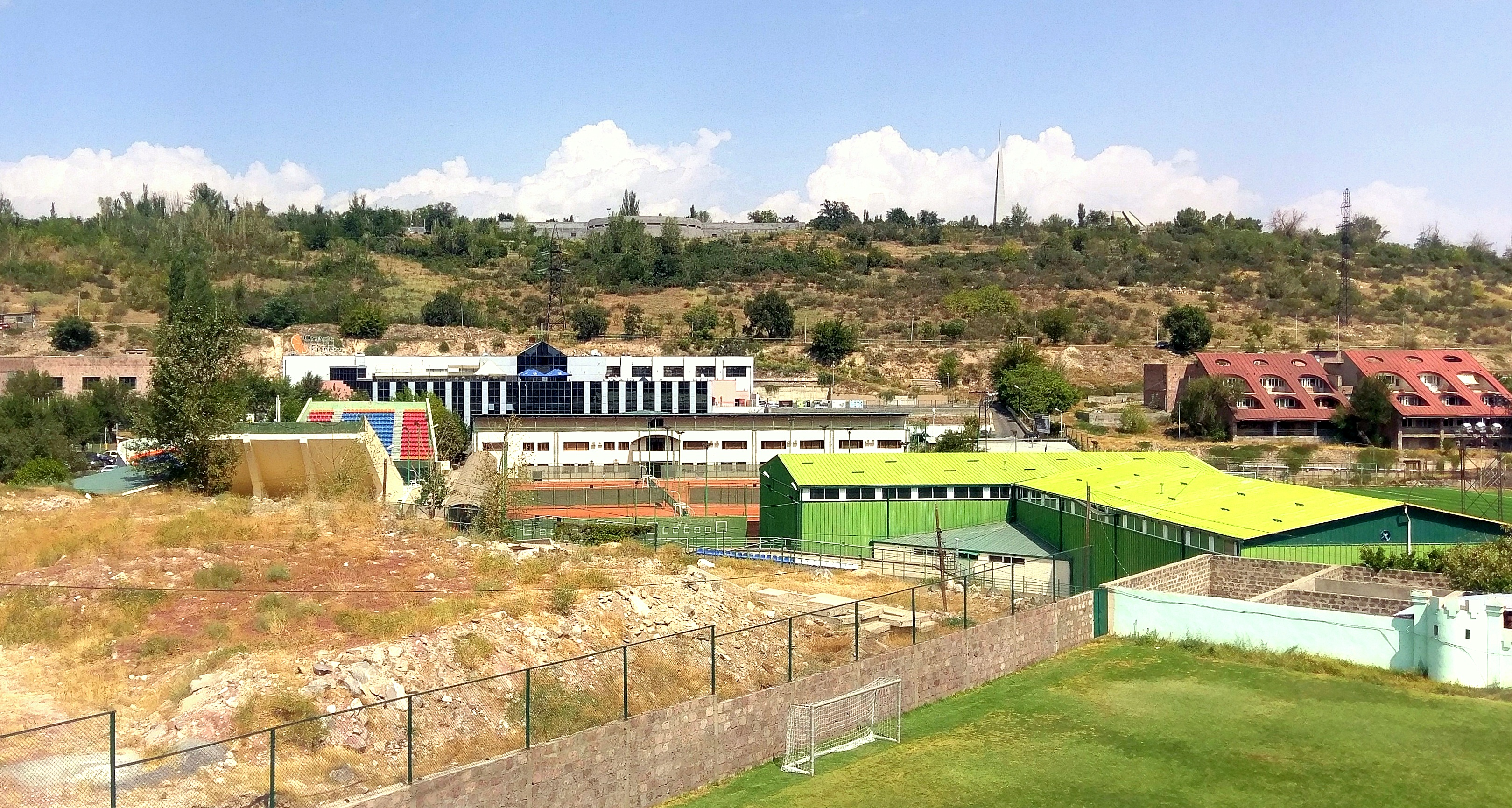 Incourt Tennis Club, Yerevan.